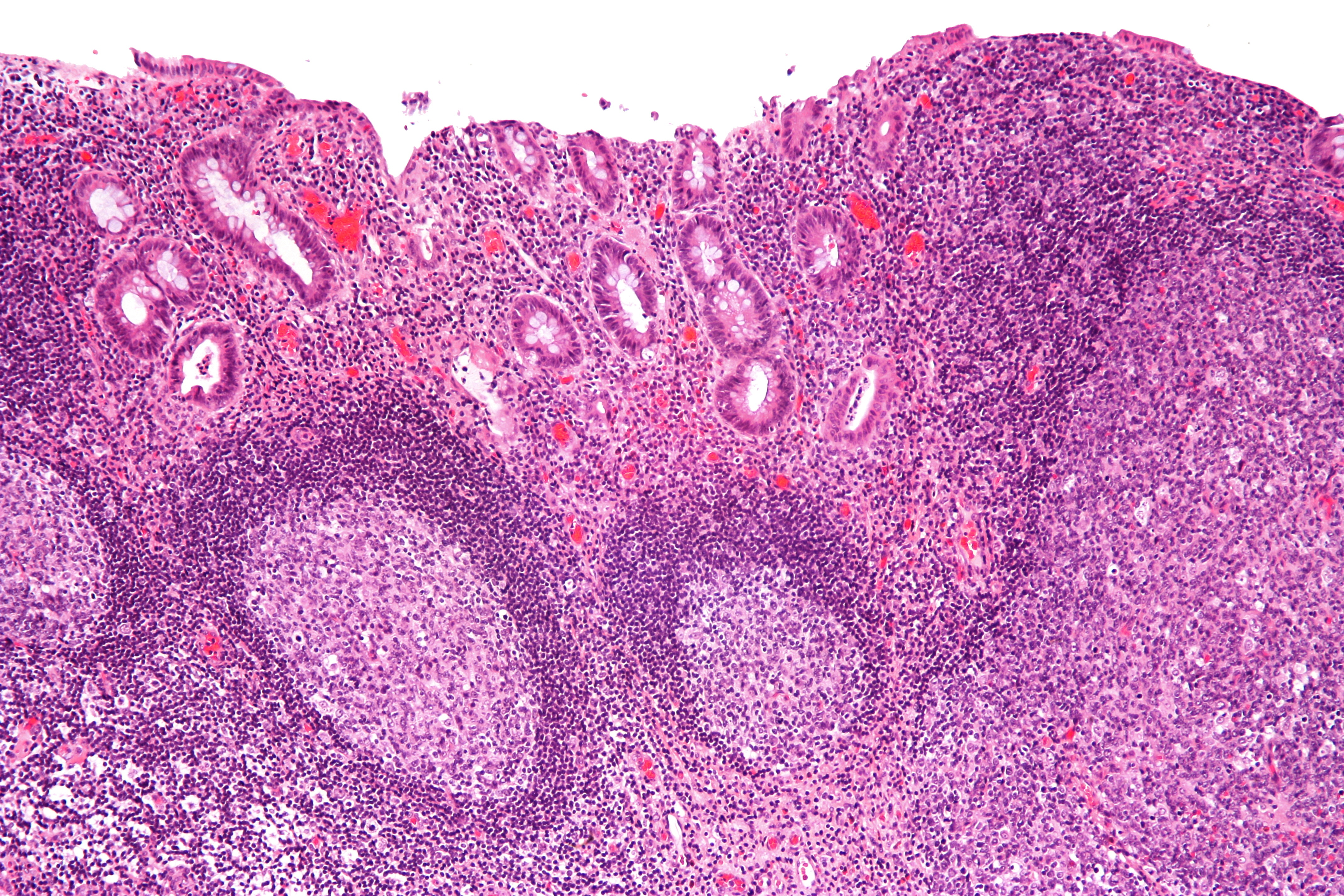 Intermediate magnification micrograph of diversion proctitis. H&E stain. Related images Low mag. Intermed. mag. High mag.